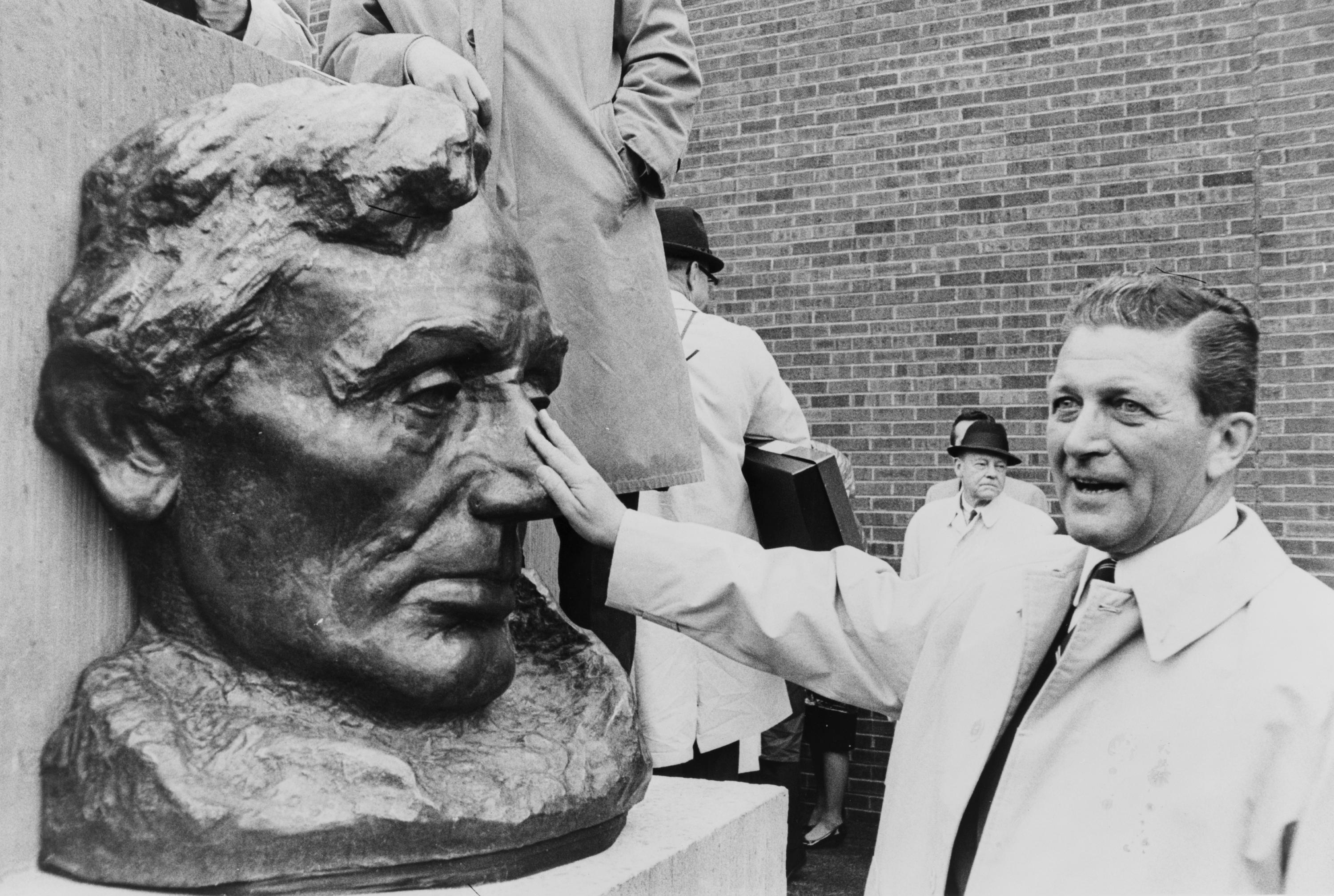 Governor Otto Kerner of Illinois, half-length portrait, standing, facing front, rubbing the nose of Gutzon Borglum's 'shiny nose' Lincoln bust / World Telegraph & Sun photo by Roger Higgins.